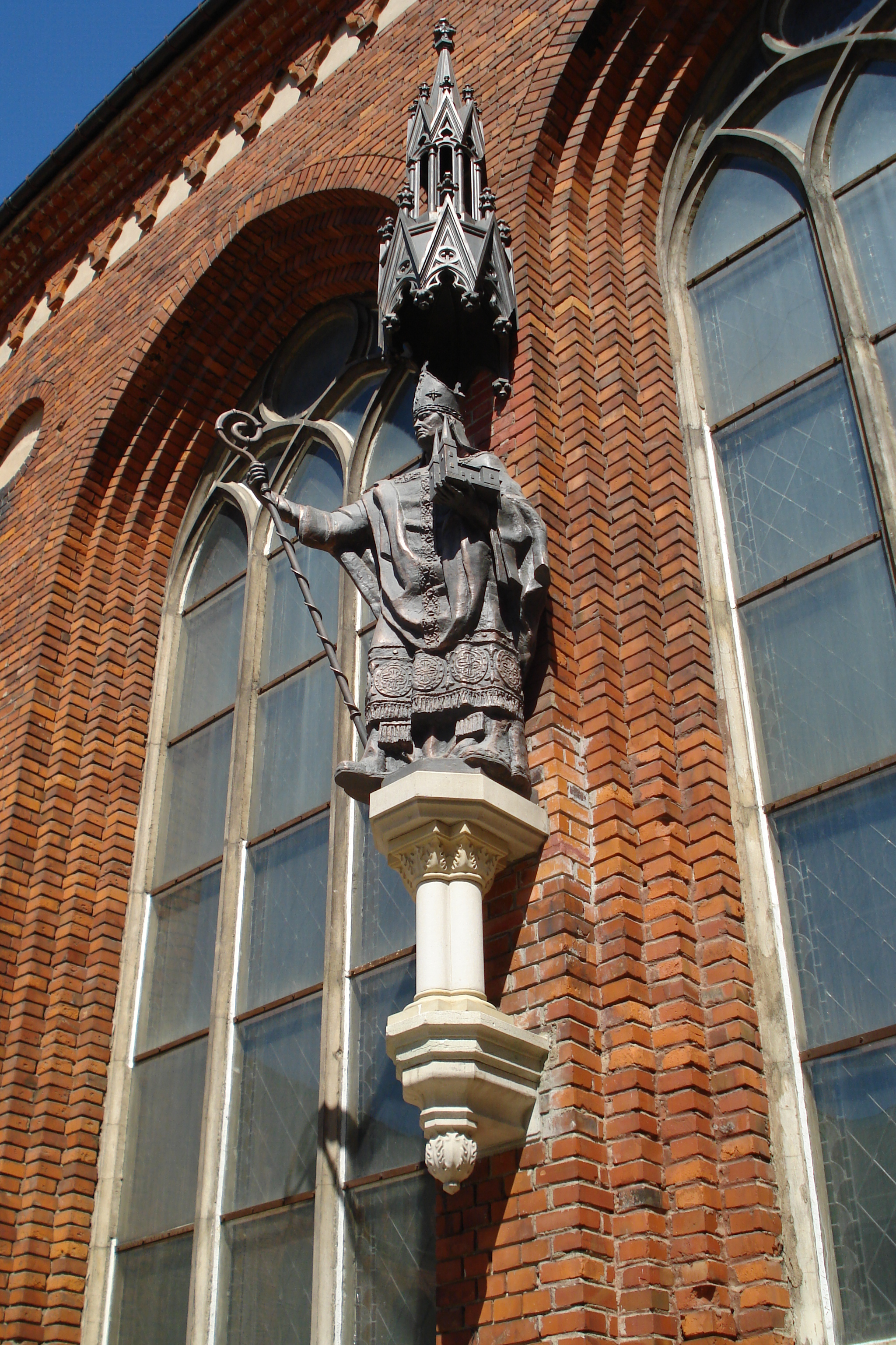 Statue of the Albrecht von Buxthoeven (Bischof von Riga) in the yard of the Riga Cathedral